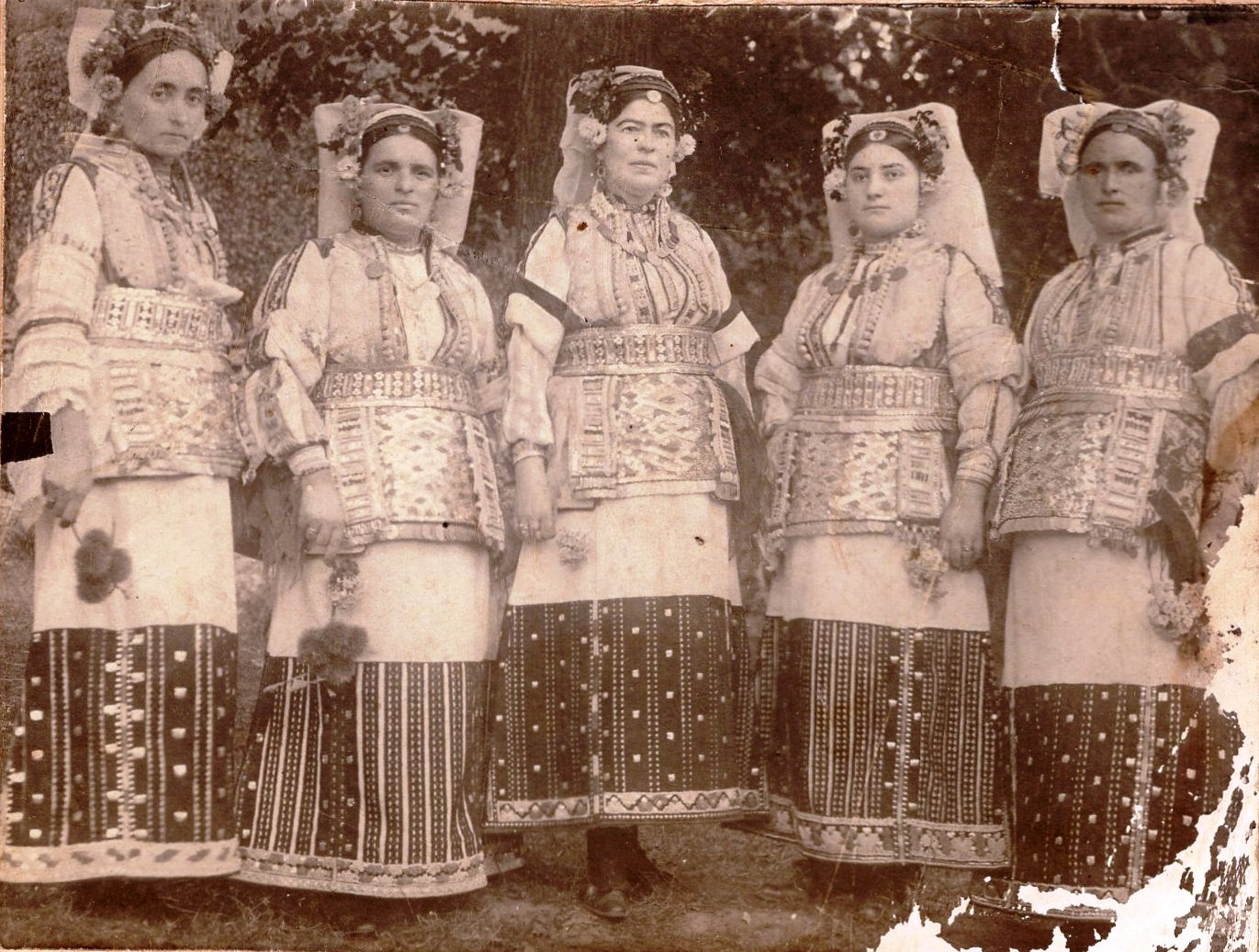 Women in traditional dress, from the village of Lesok, Tetovo, 1890 This media file is produced by Wikipedian in Residence in Category:Wikipedian in Residence at DARM in 2016.